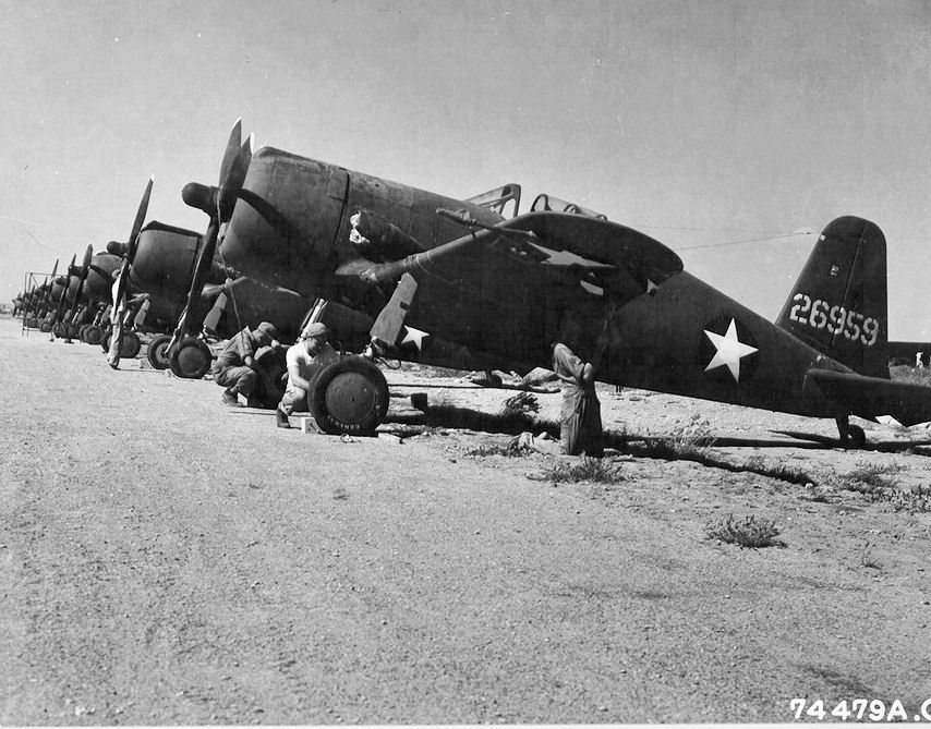 Vultee P-66 Vanguards. These planes were originally built for Sweden but were siezed by the USAAF and all but 15 were sent to China under the Lend-Lease program. The 15 kept by the USAAF were used as advanced trainers. The photo was taken when the aircraft were at Karachi Airfield in India on October 25,1942.